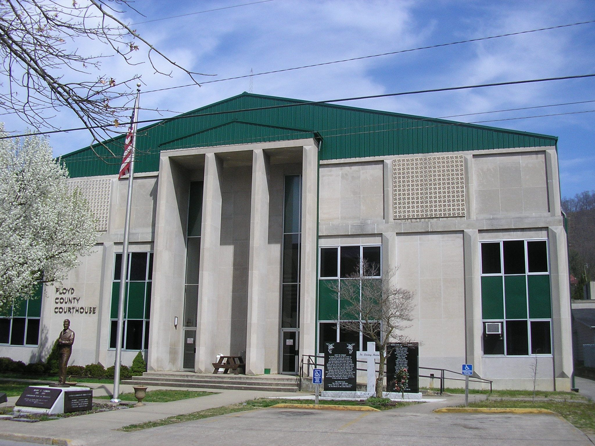 Not so bad except for the roof... there could be a soccer field in there as easily as a courtroom.